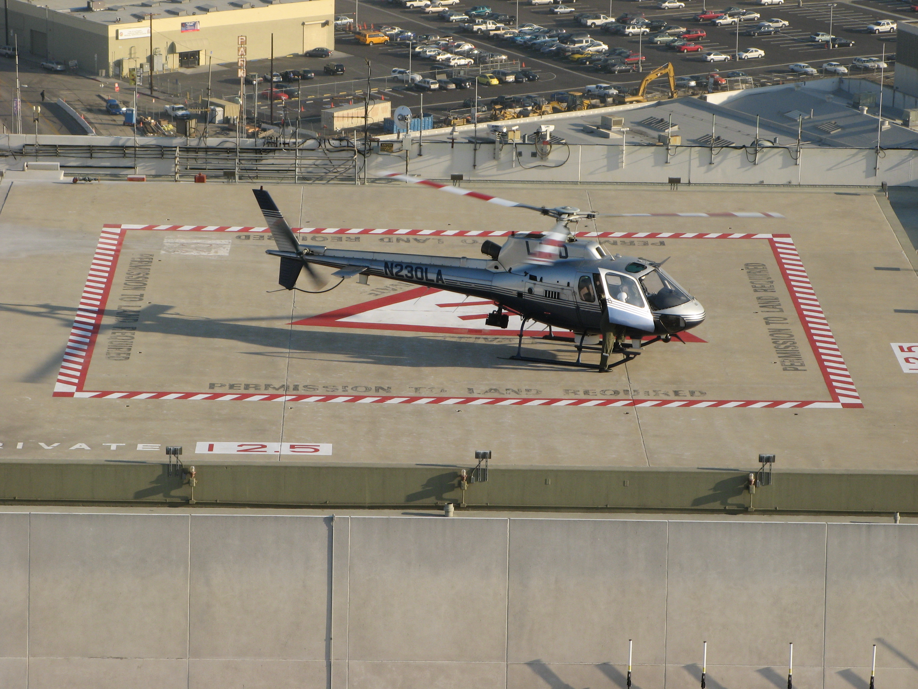 One of LAPD's 18 helicopters on top of the headquarters of LAFD Photographed and uploaded by user:Geographer.